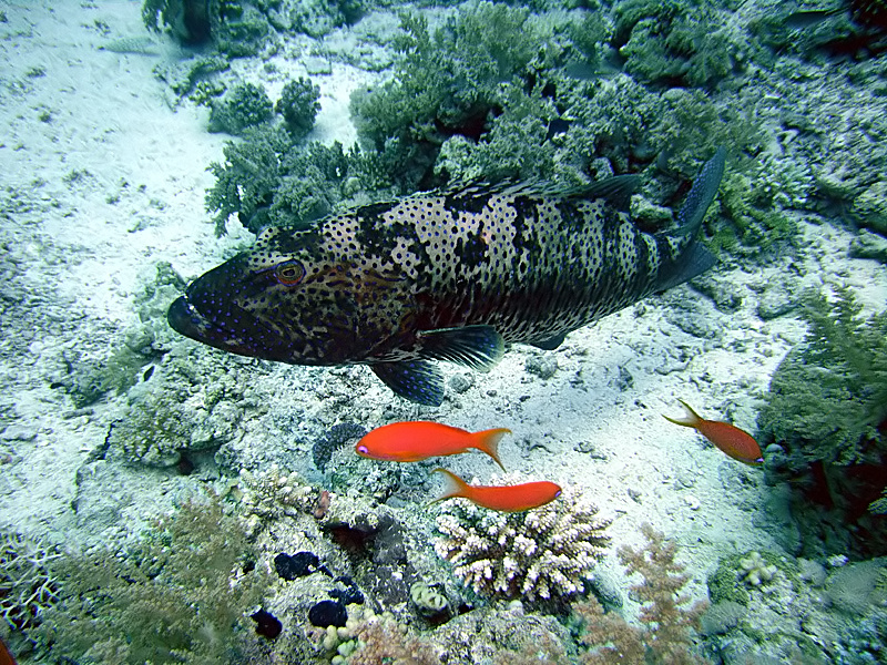 Coralgrouper, Yolanda Reef, Ras Muhammad, Egypt